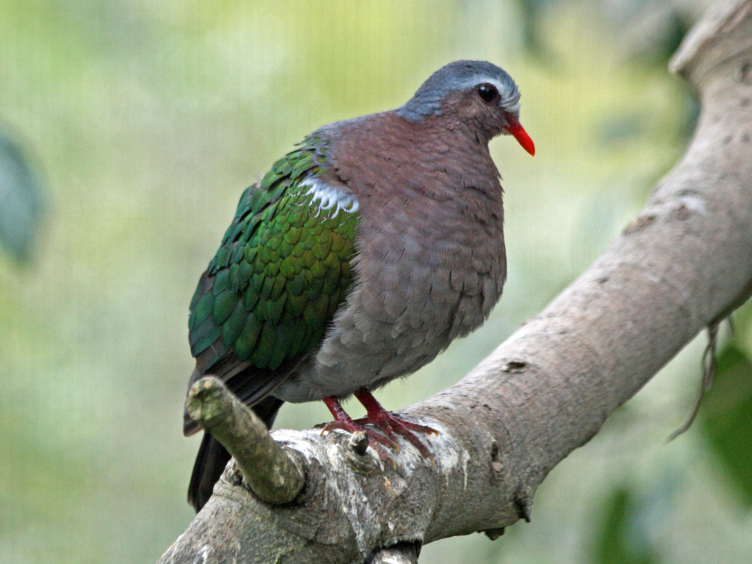 Male Emerald Dove (Chalcophaps indica) - San Diego Zoo